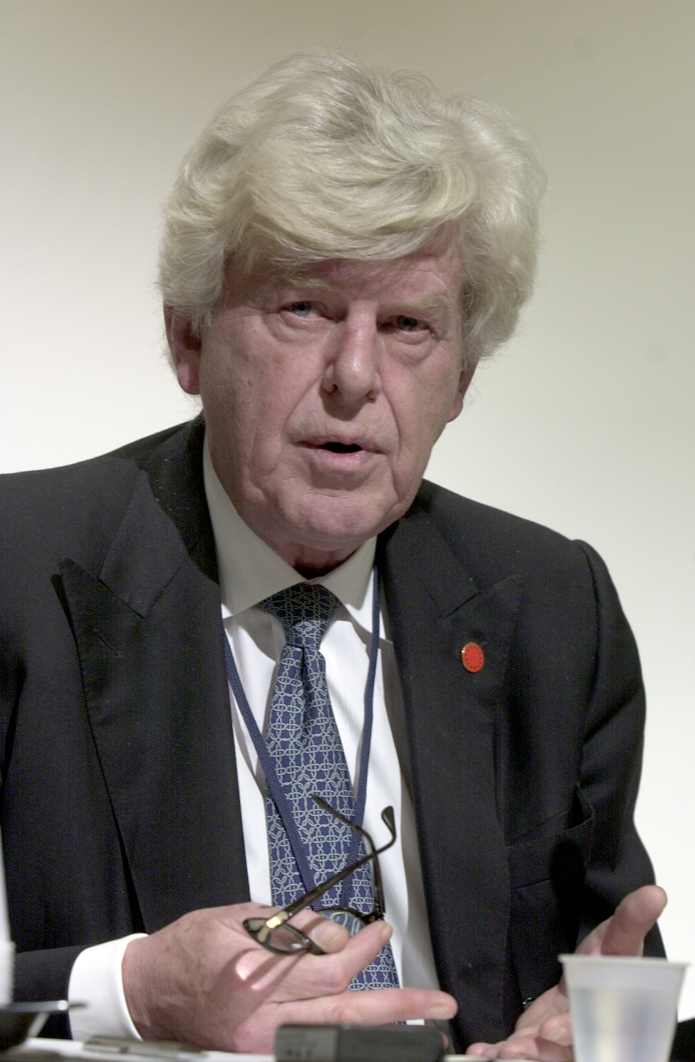 Wim Duisenberg at the 2001 Spring Meetings APRIL 26–30, 2001, Washington D.C.